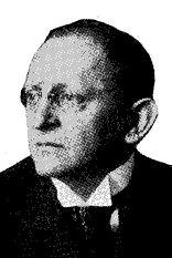 German politican Erich Friedrich Ludwig Koch.